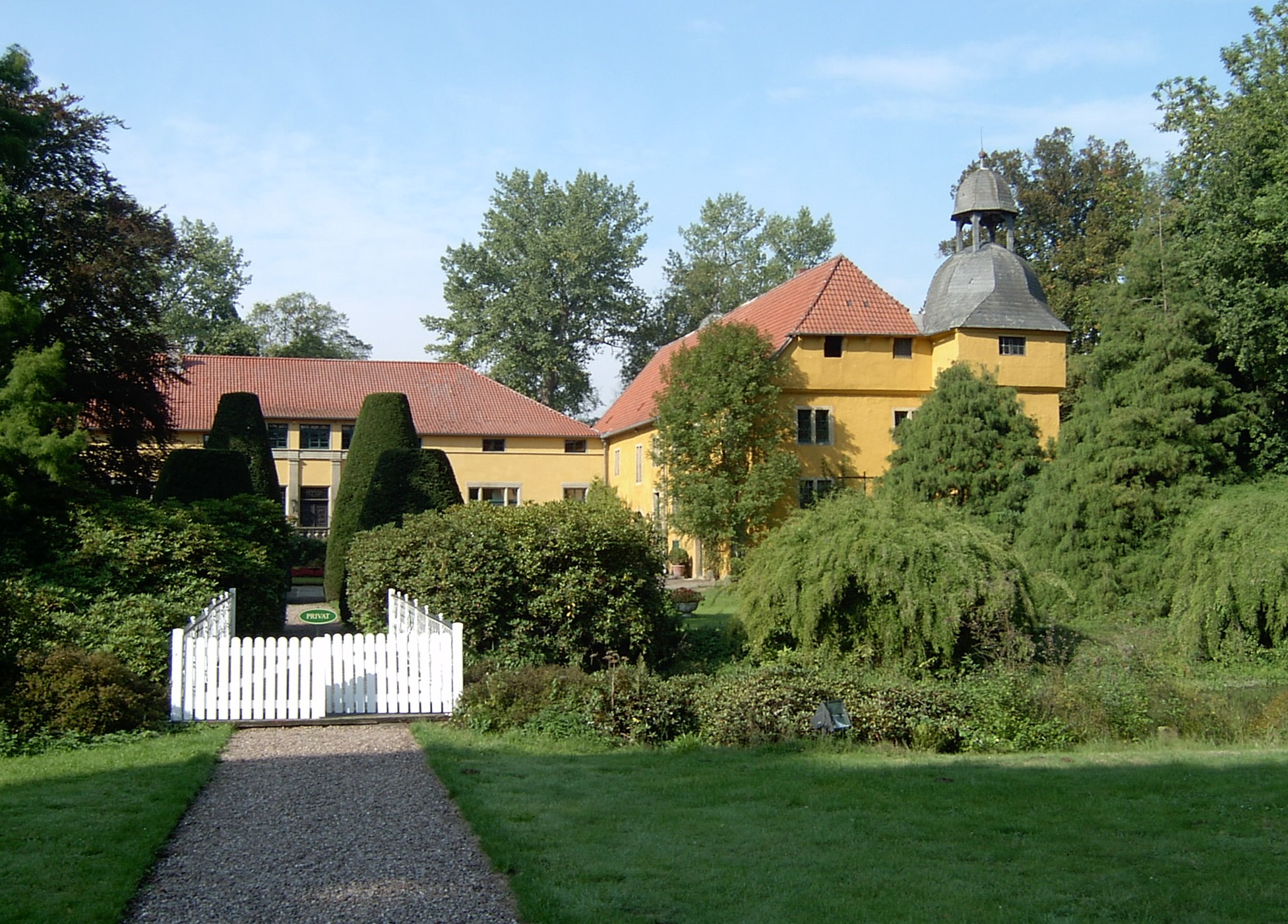 Picture shows the main building of Gut Böckel from the east, a castle near Rödinghausen-Bieren, Germany. The tower on the right hand side was a summer long retreat of the german poet Rainer Maria Rilke.